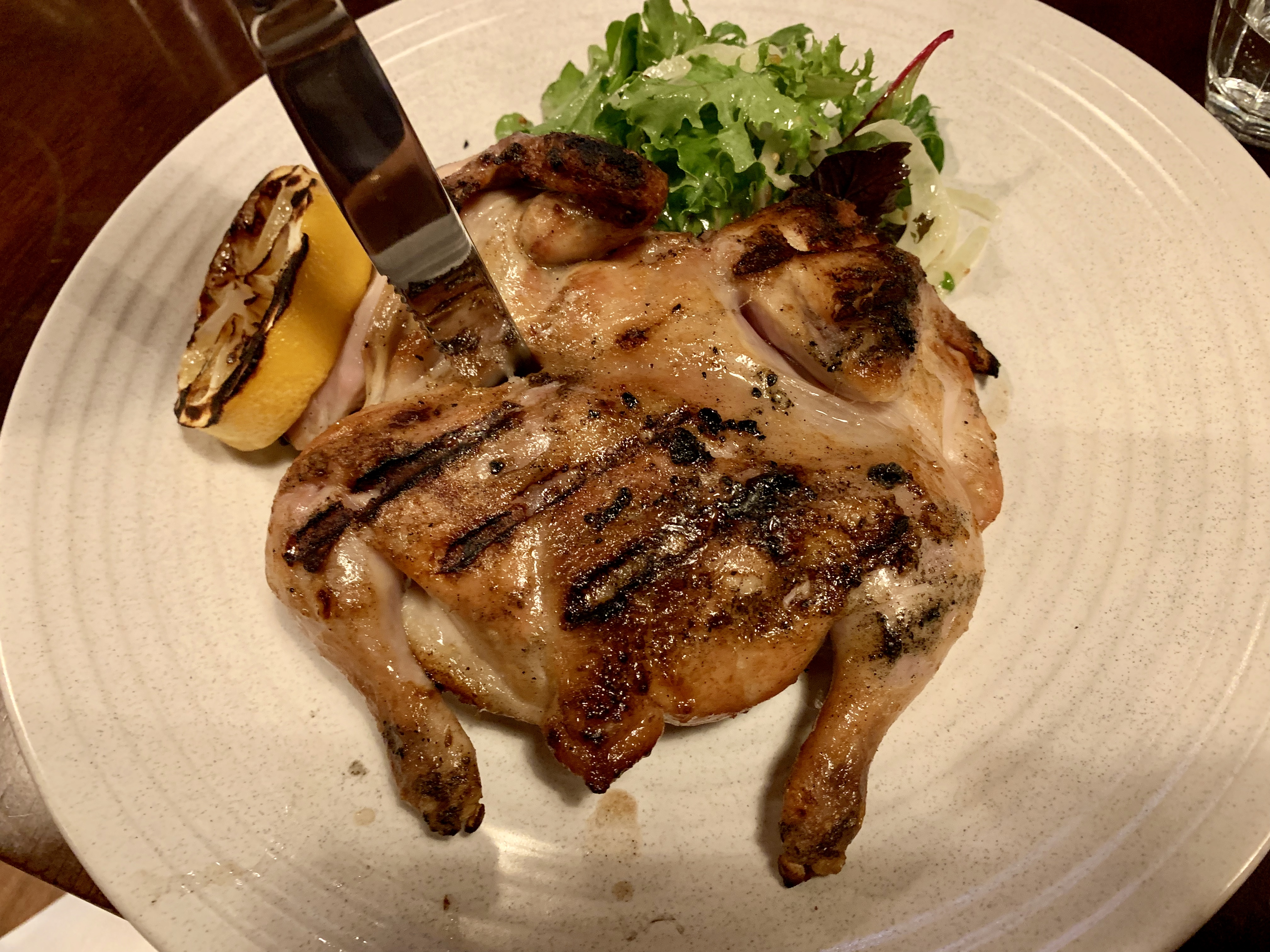 Osteria Epoca Cafe Bar, Yeronga, Queensland, grilled spatchcock dish